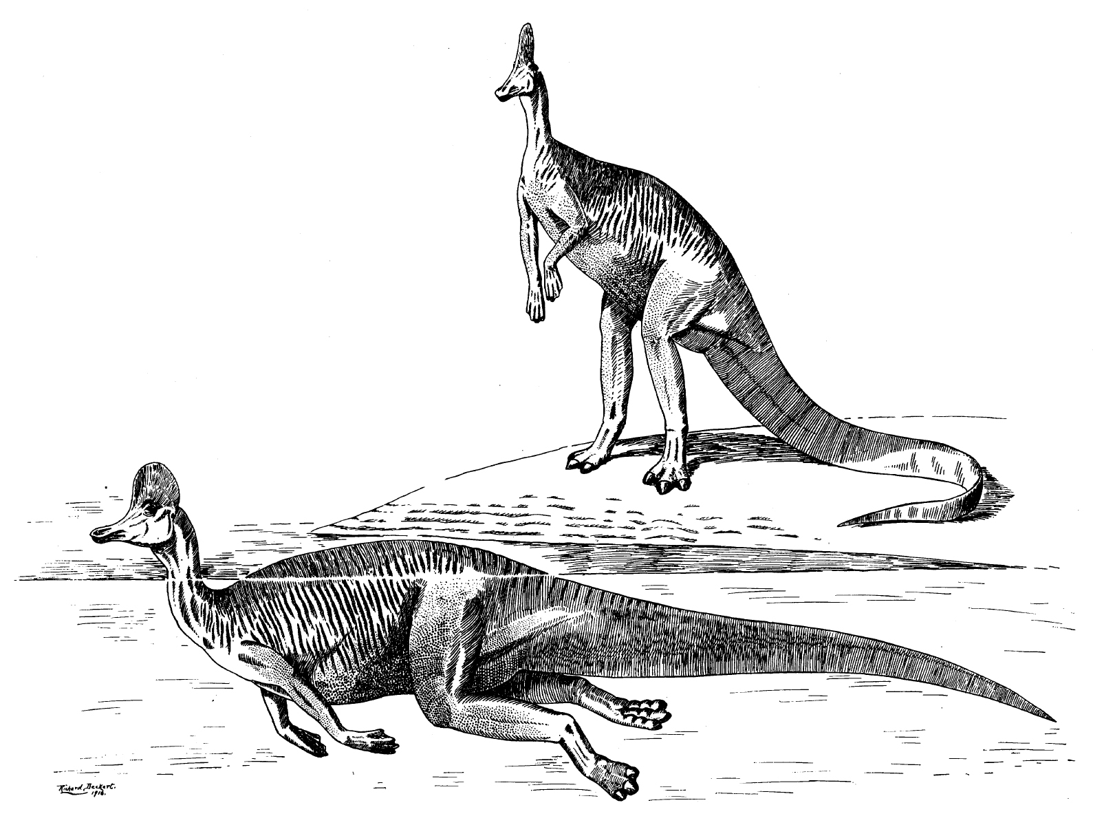 Restoration inaccurately depicting Corythosaurus casuarius as aquatic.